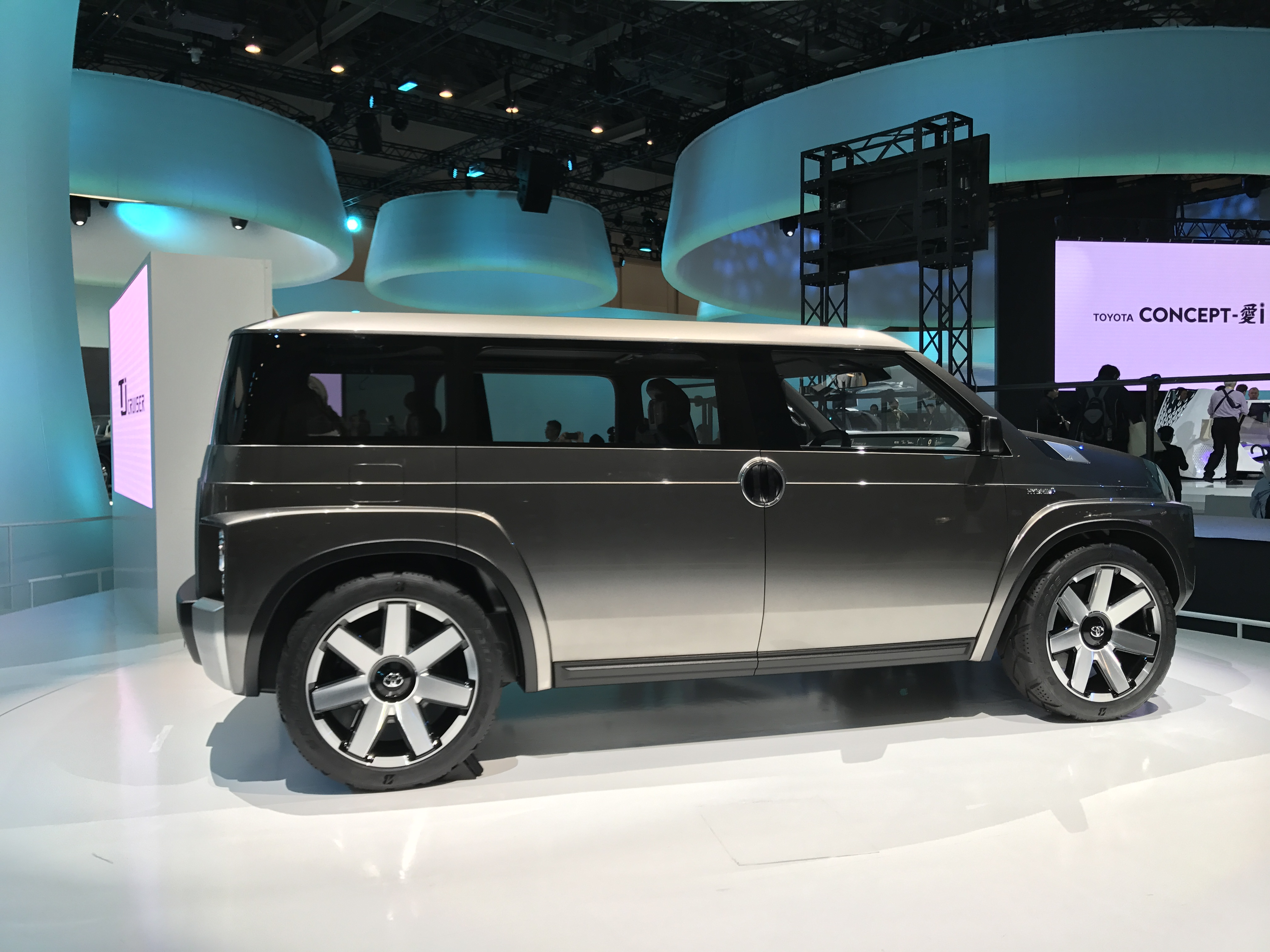 Right side of Toyota TJ Cruiser concept at the 2017 Tokyo Motor Show